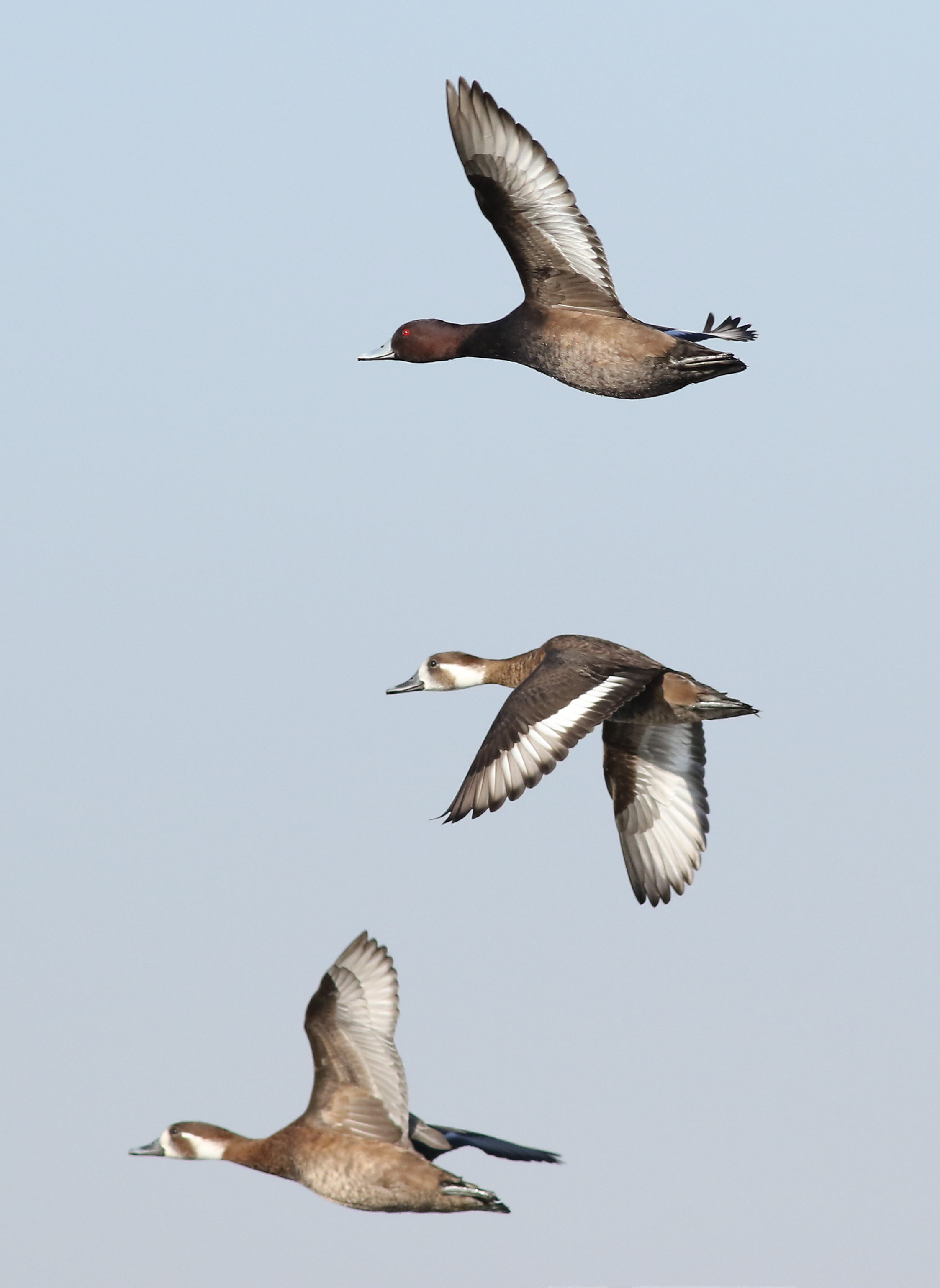 Southern Pochard, Netta erythrophthalma, at Marievale Nature Reserve, Gauteng, South Africa